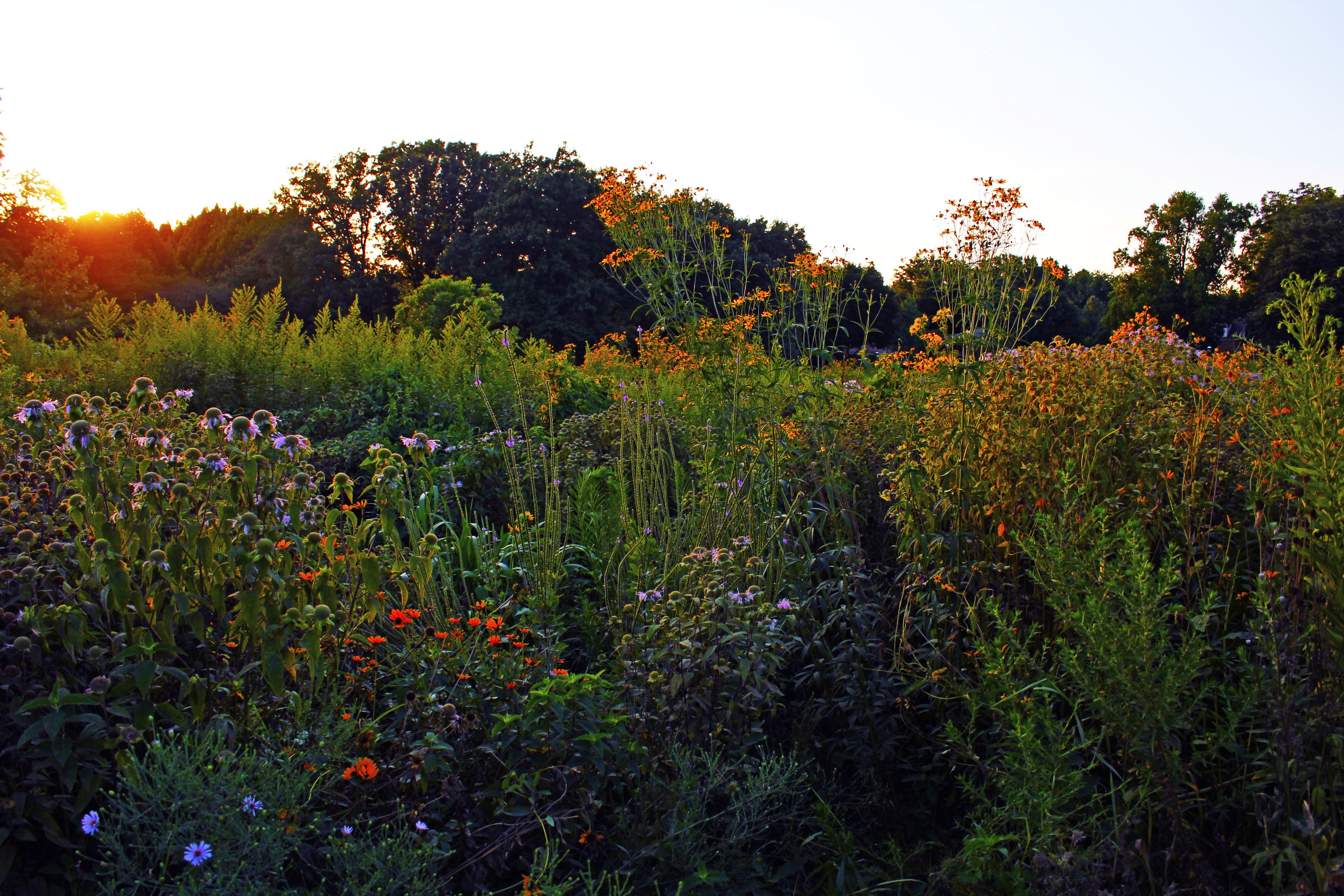 The Prairie Research Institute is located on the campus of University of Illinois at Urbana–Champaign and is the home of the Illinois Natural History Survey, Illinois State Geological Survey. The image is of one of the natural prarie fields located off Florida Ave.